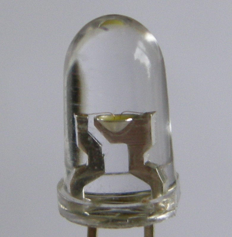 Close-up of a white LED.